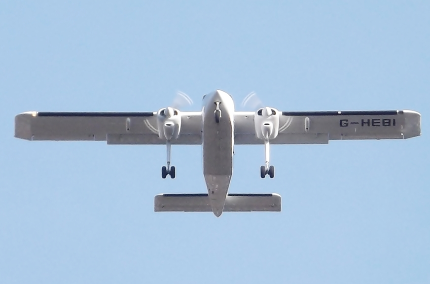 G-HEBI Islander on approach to Glasgow Airport